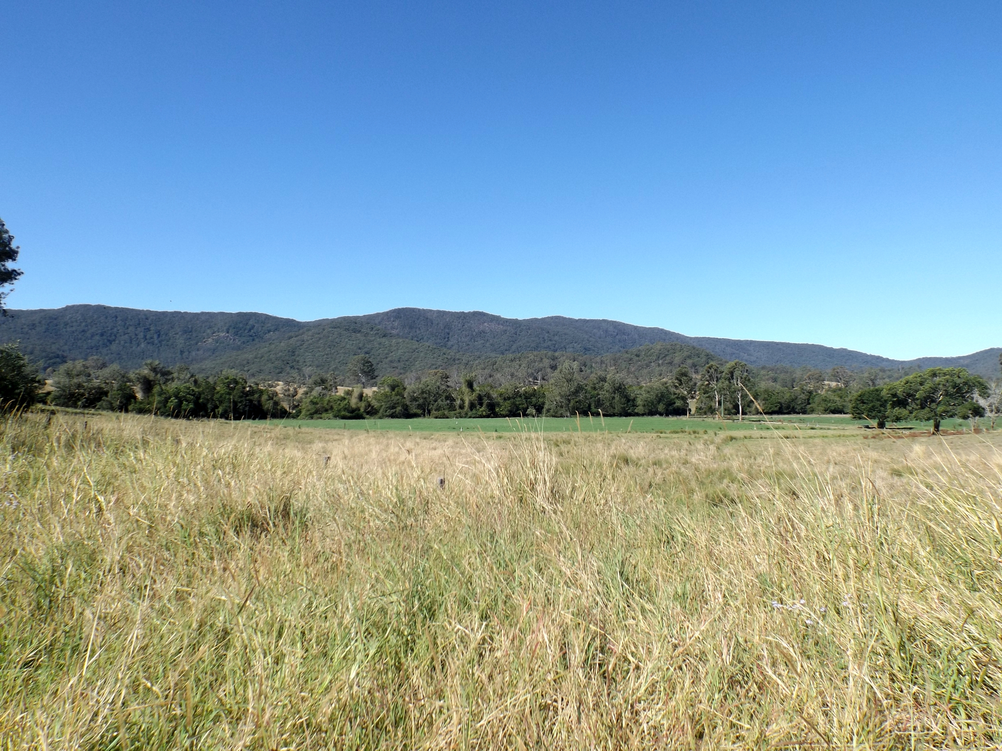 Photo of paddocks along Sandy Creek Road at Sandy Creek, Somerset Region, Queensland, Australia. Bellthorpe National Park and Mount Mary Smokes can be seen in the background.